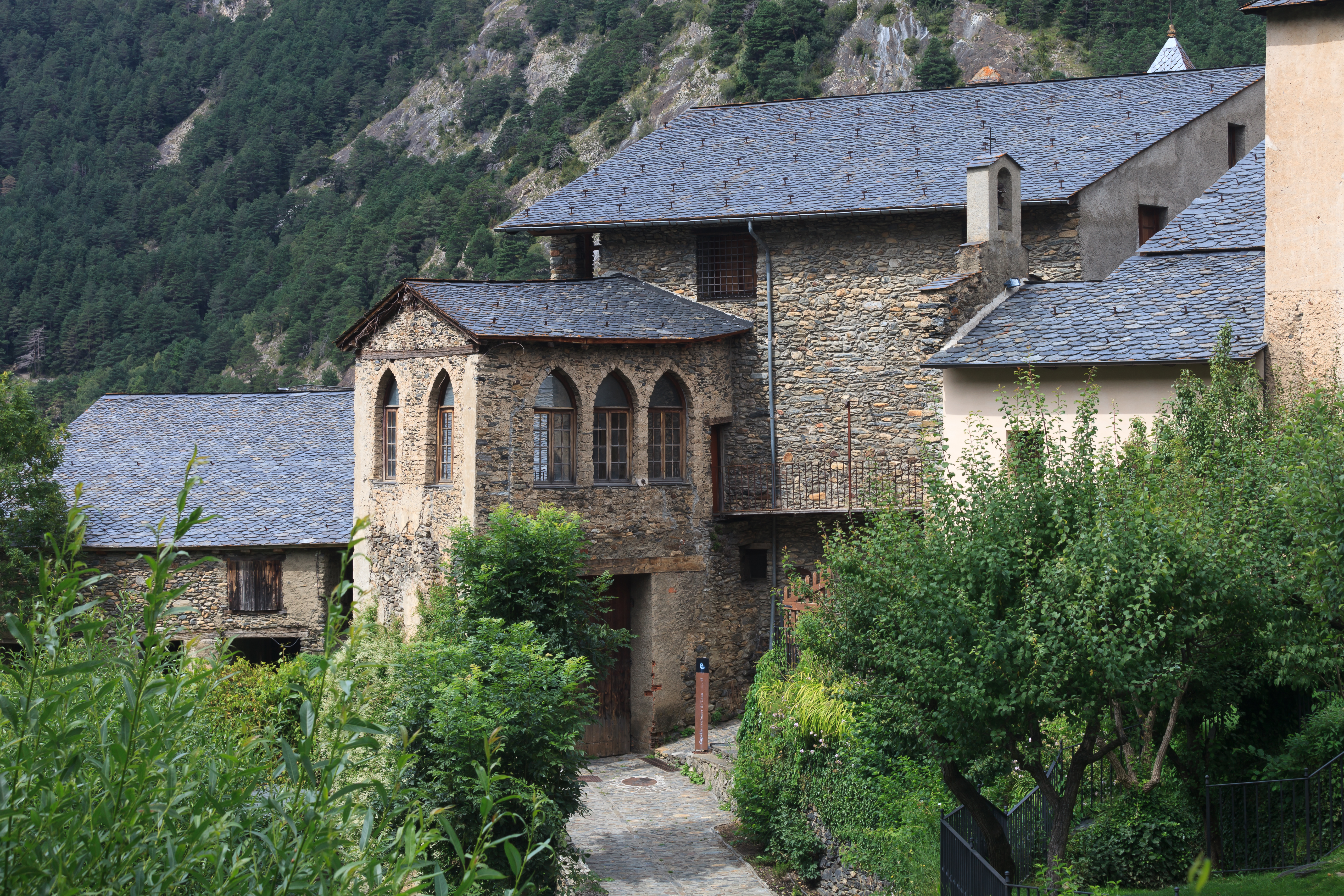 Building in Ordino (detail). Andorra